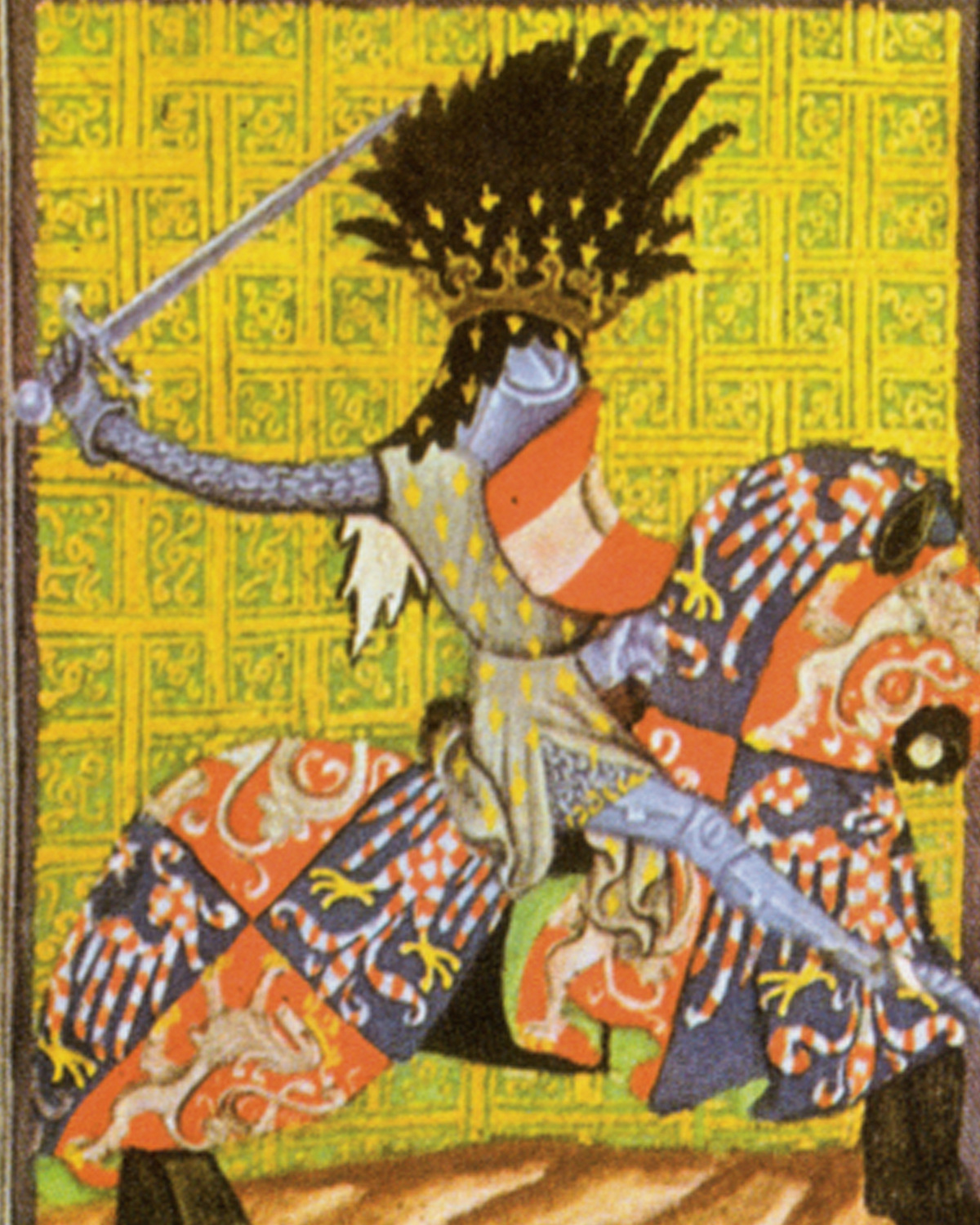 Ottokar II Premysl